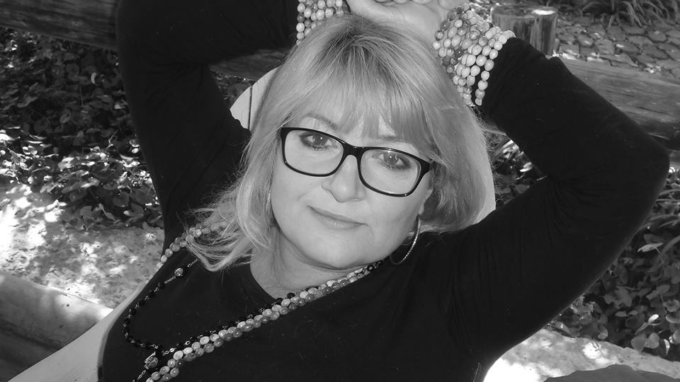 Lieze Stassen in 2014